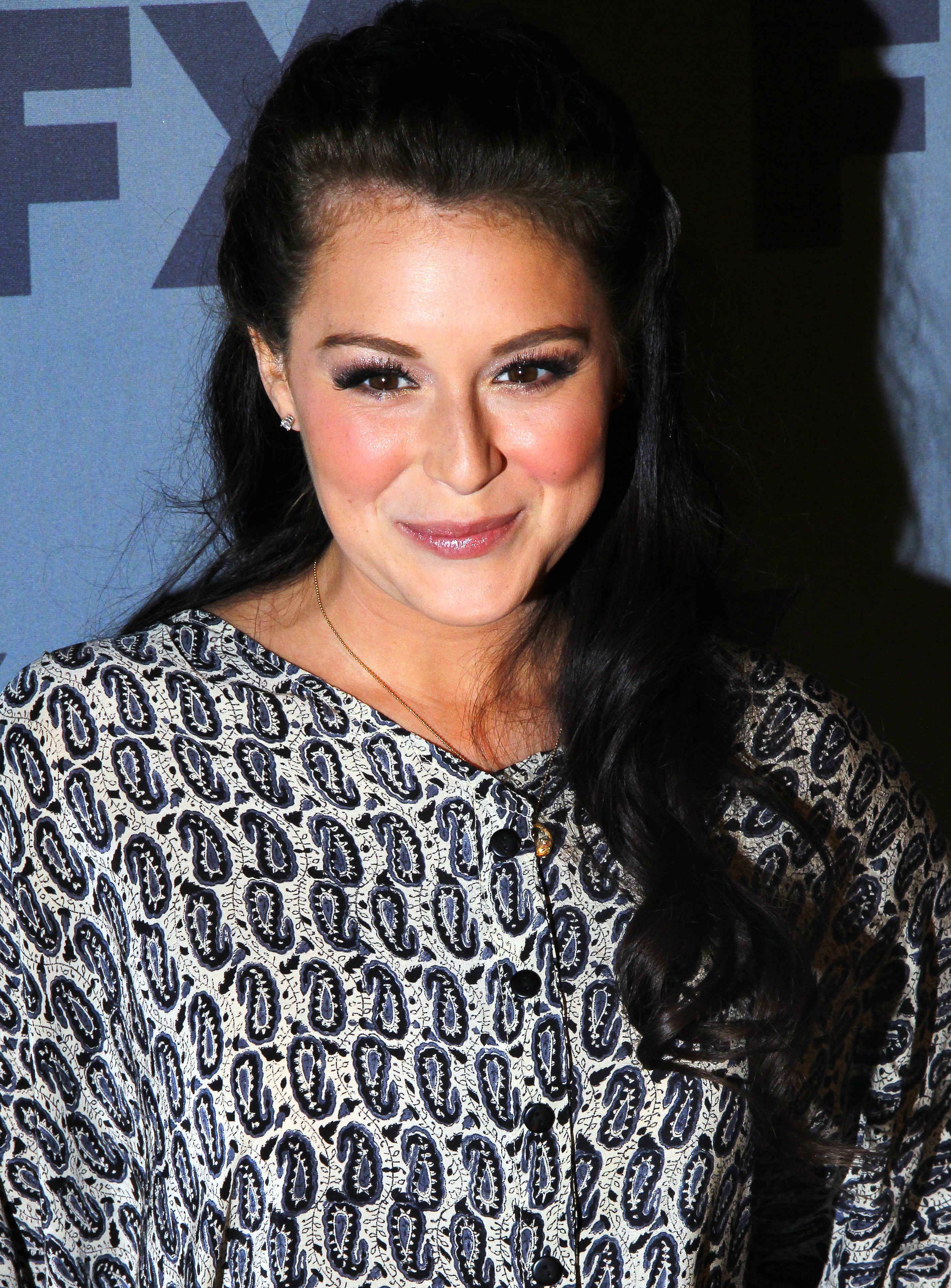 Alexa Vega at the 2012 FX Ad Sales Upfront.